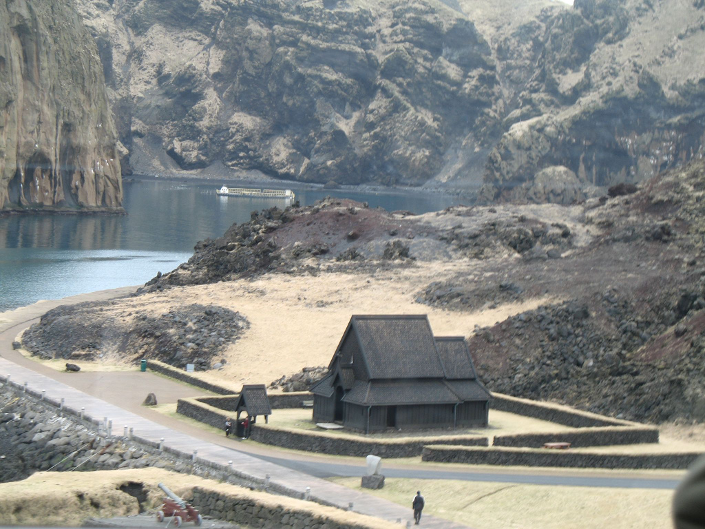 Stafkirkjan, the old church of Heimaey, gift to Iceland from the norvegian government in 2000 in order to celebrate the 1000th anniversary of the arrival of Christianity.